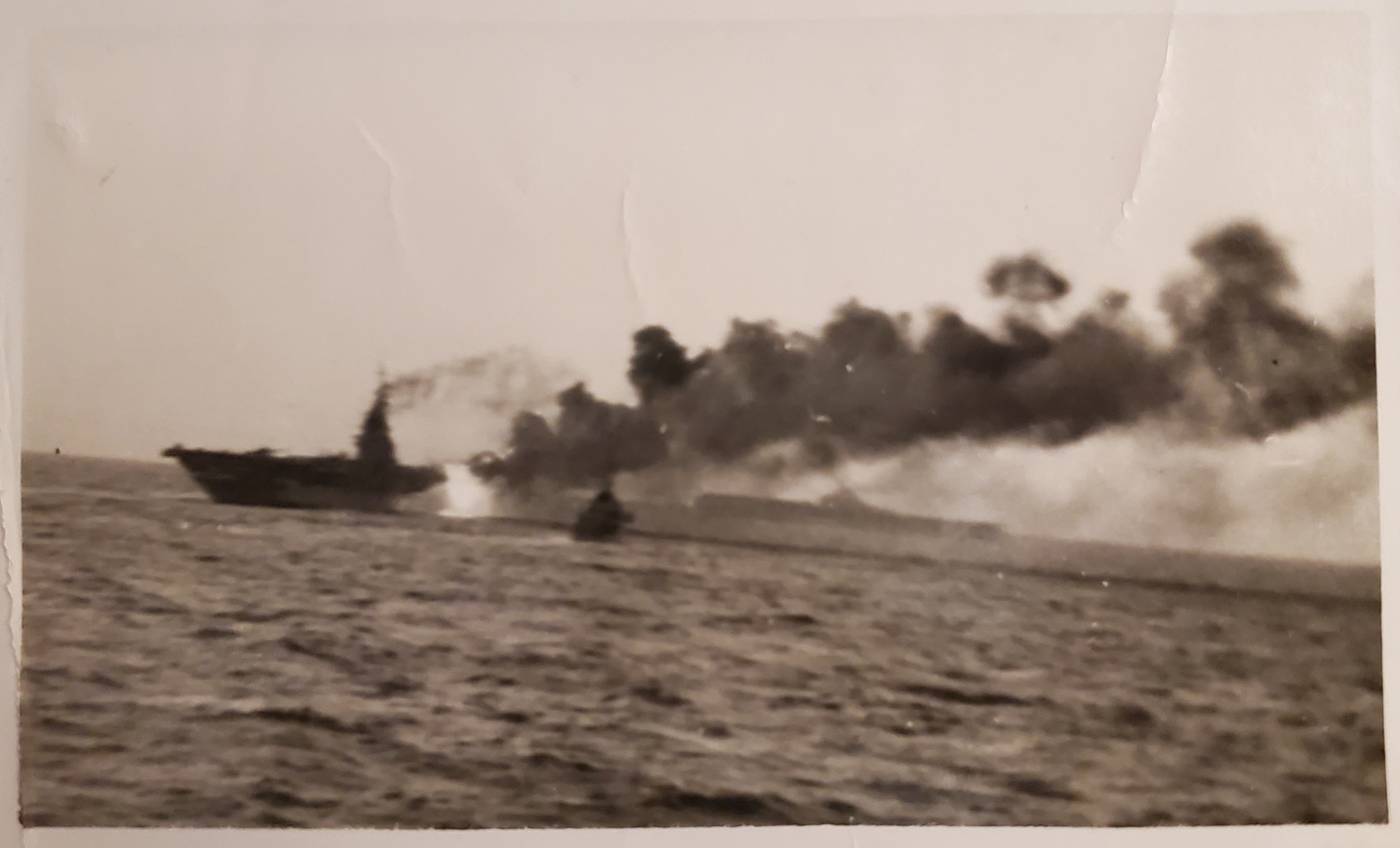 The U.S. Navy aircraft carrier USS Essex (CV-9) on fire. USS Boxer (CV-21) in visible in the background. The fire was on the flight deck near the starboard bow, after a McDonnell F2H-2 Banshee jet fighter crashed into parked aircraft during operations off Korea, 16 September 1951.